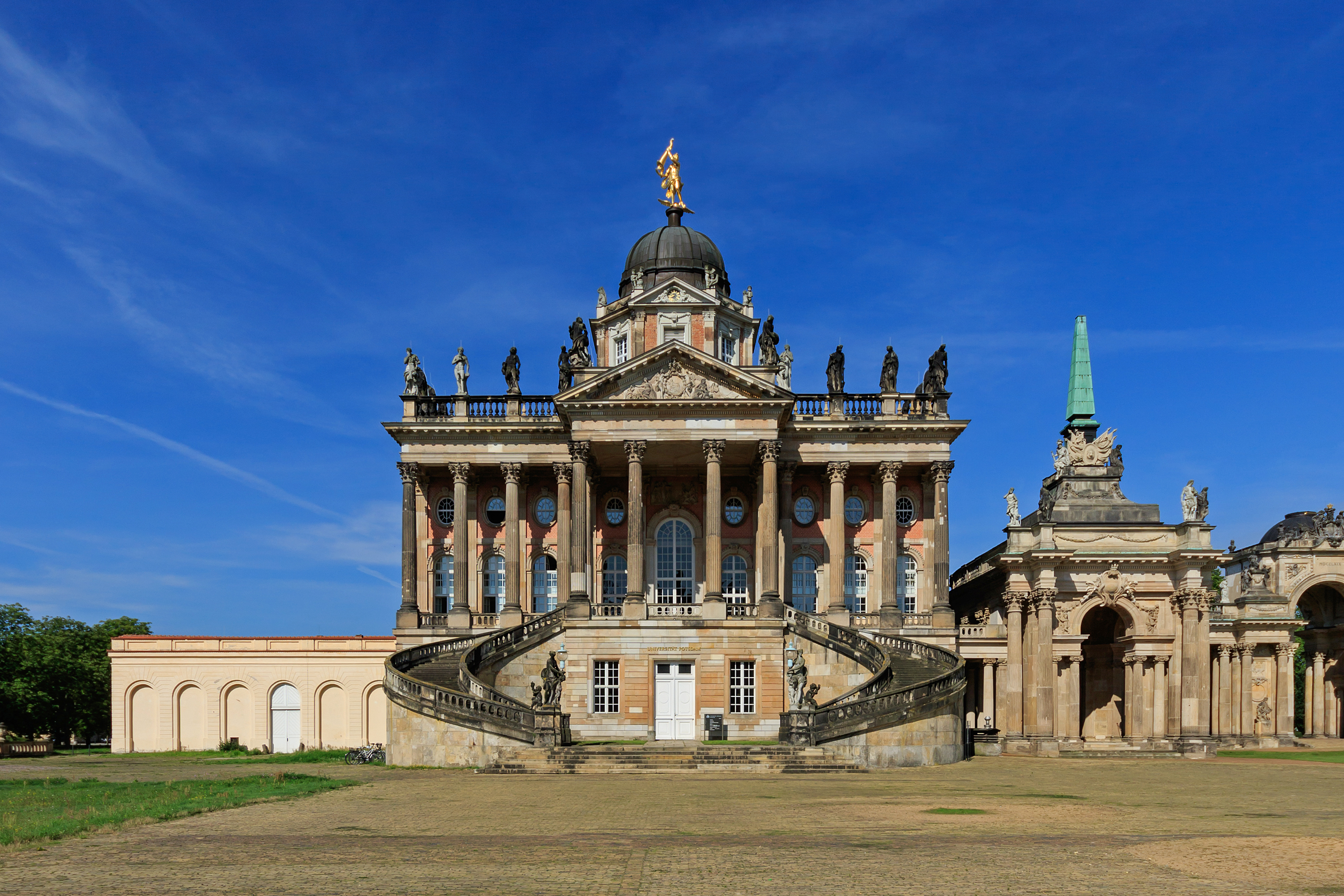 Ensemble of Sanssouci Neues Palais in Potsdam (Germany)